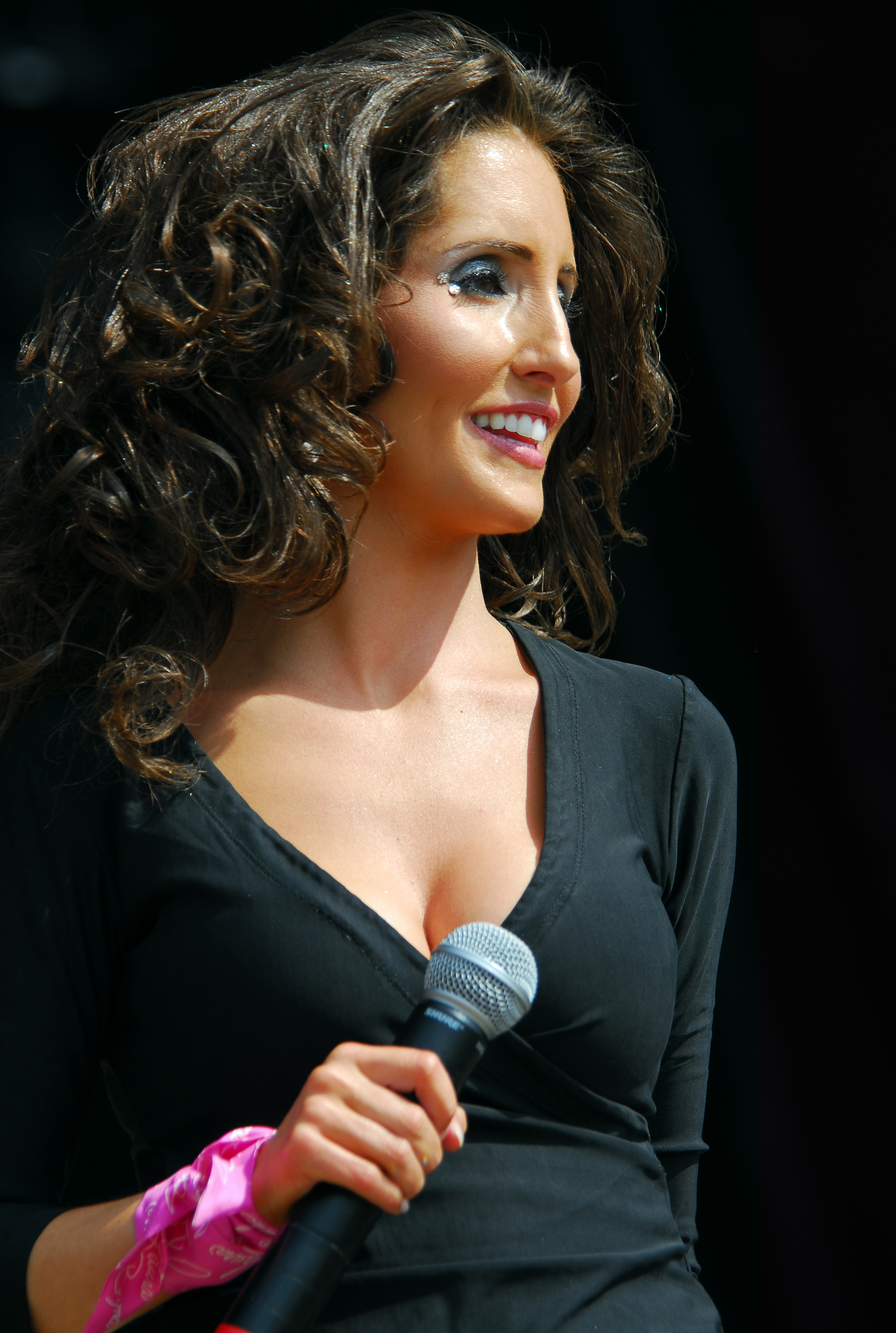 Country music singer Laura Bryna on July 16, 2008 at the Country Thunder music festival in Twin Lakes, Wisconsin.